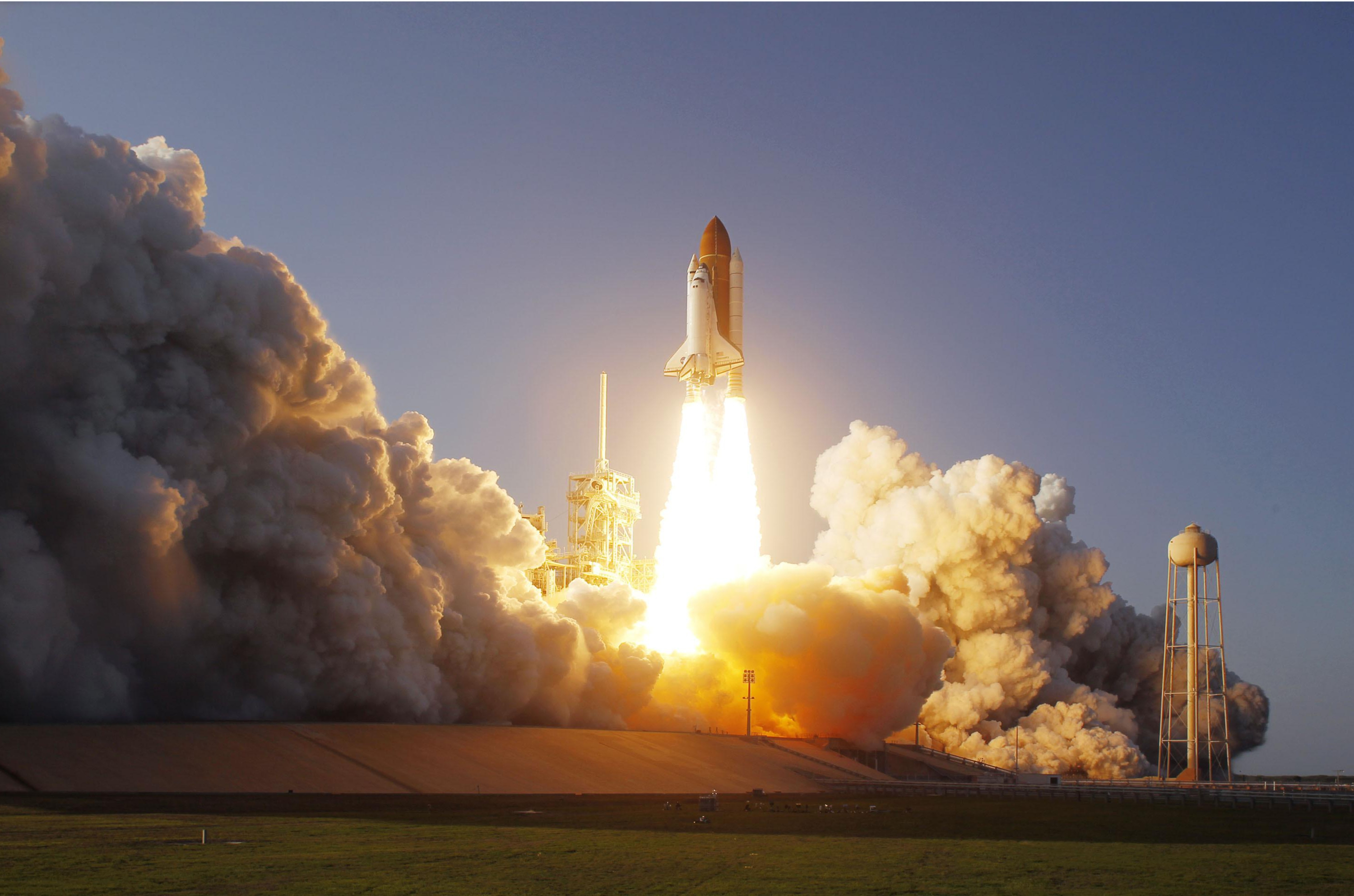 Rising on twin columns of fire and creating rolling clouds of smoke and steam, space shuttle Discovery lifted off Launch Pad 39A at NASA's Kennedy Space Center in Florida on a picturesque, warm, late February afternoon. Launch of the STS-133 mission was at 4:53 p.m. EST on Feb. 24. 2011.